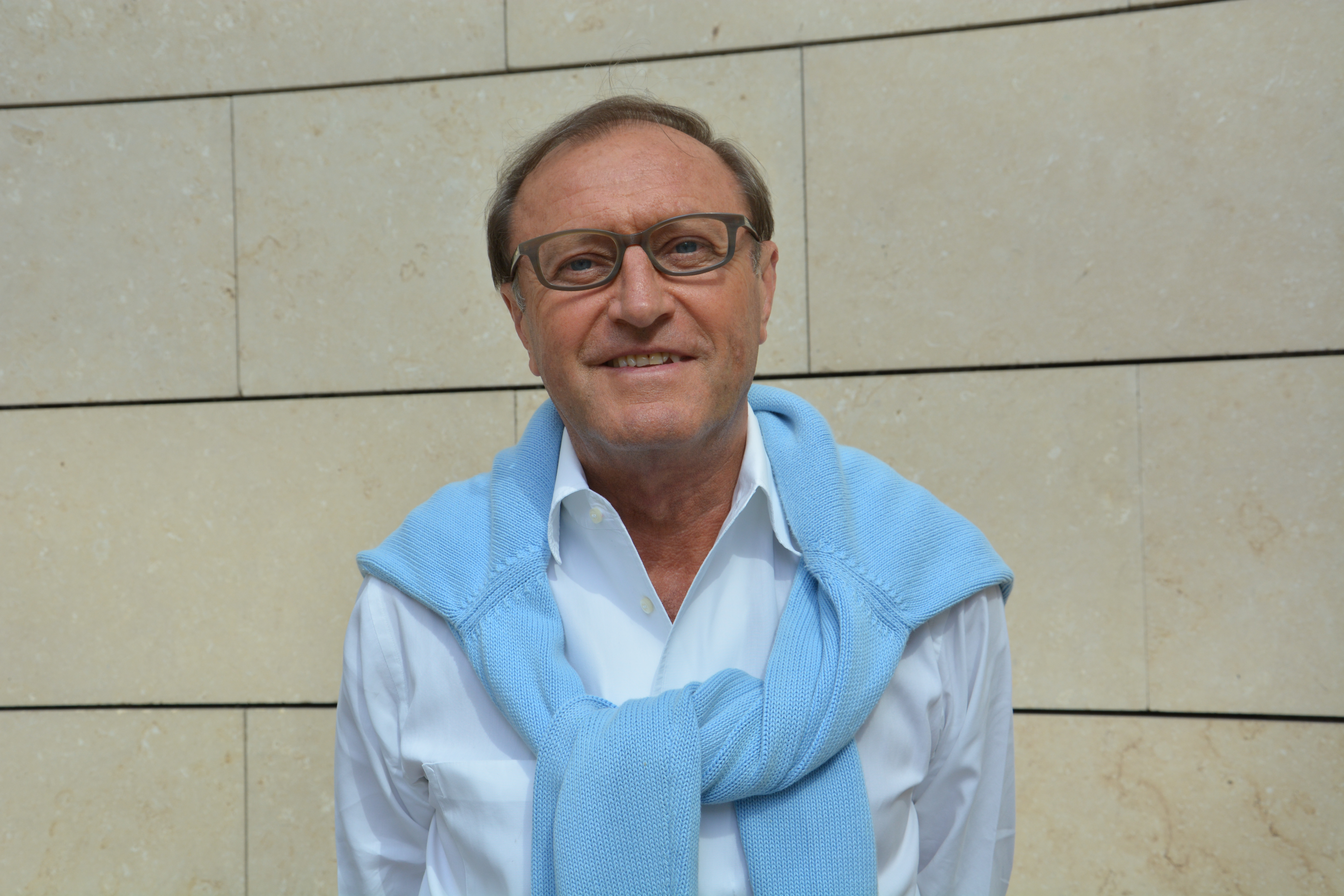 Flavio Albanese